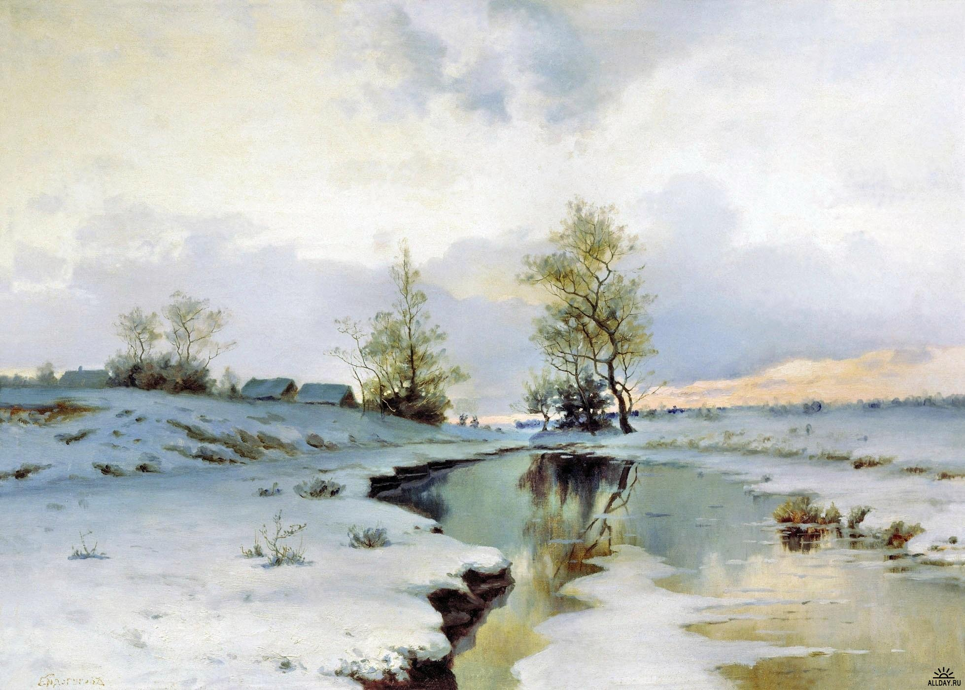 Beginning of Spring. 1890s. Oil on canvas. 70 x 97.2 cm. The State Russian Museum, St. Petersburg, Russia